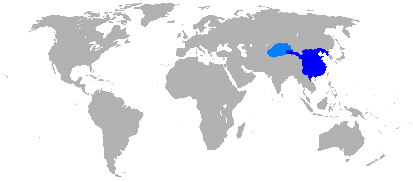 Map of Han Dynasty in 2 CE. darkest blue is the commandaries and principalities of the Han Empire. light blue is the Tarim Basin protectorate.